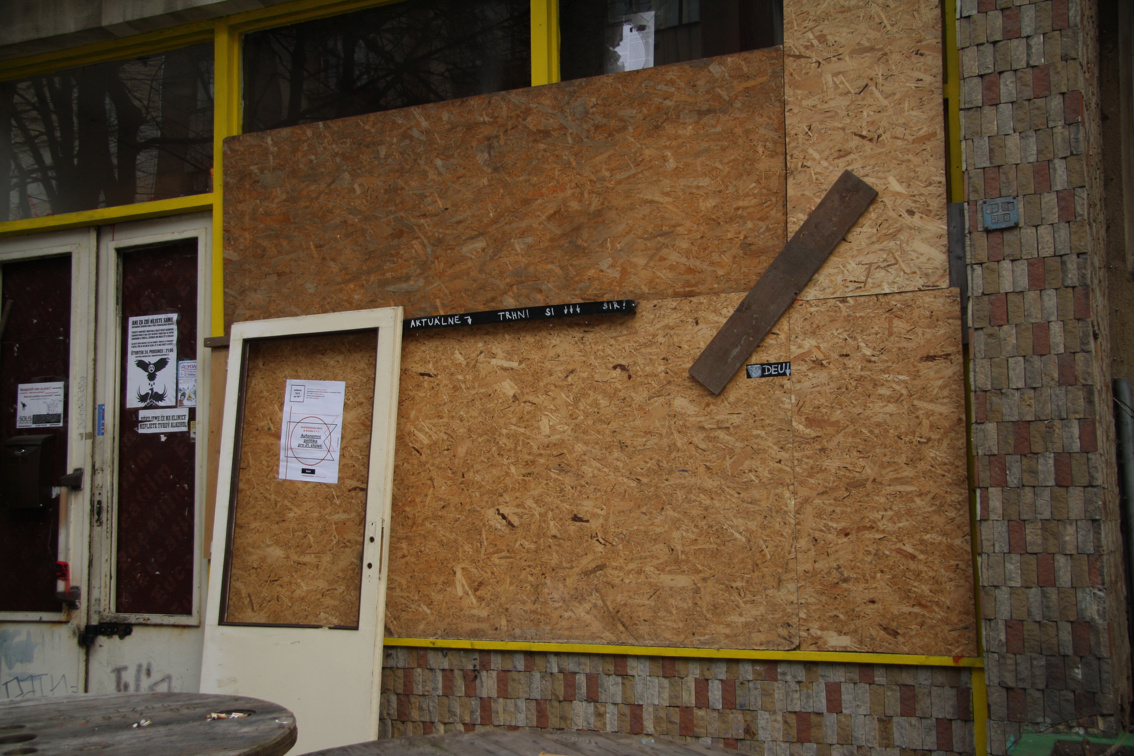 Crashed windows of Klinika center in Praha-Žižkov, Praha.